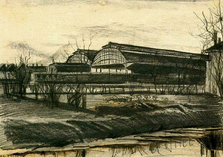 Vincent van Gogh - Rijnspoor Station (F919), 1882 Gemeentemuseum, The Hague